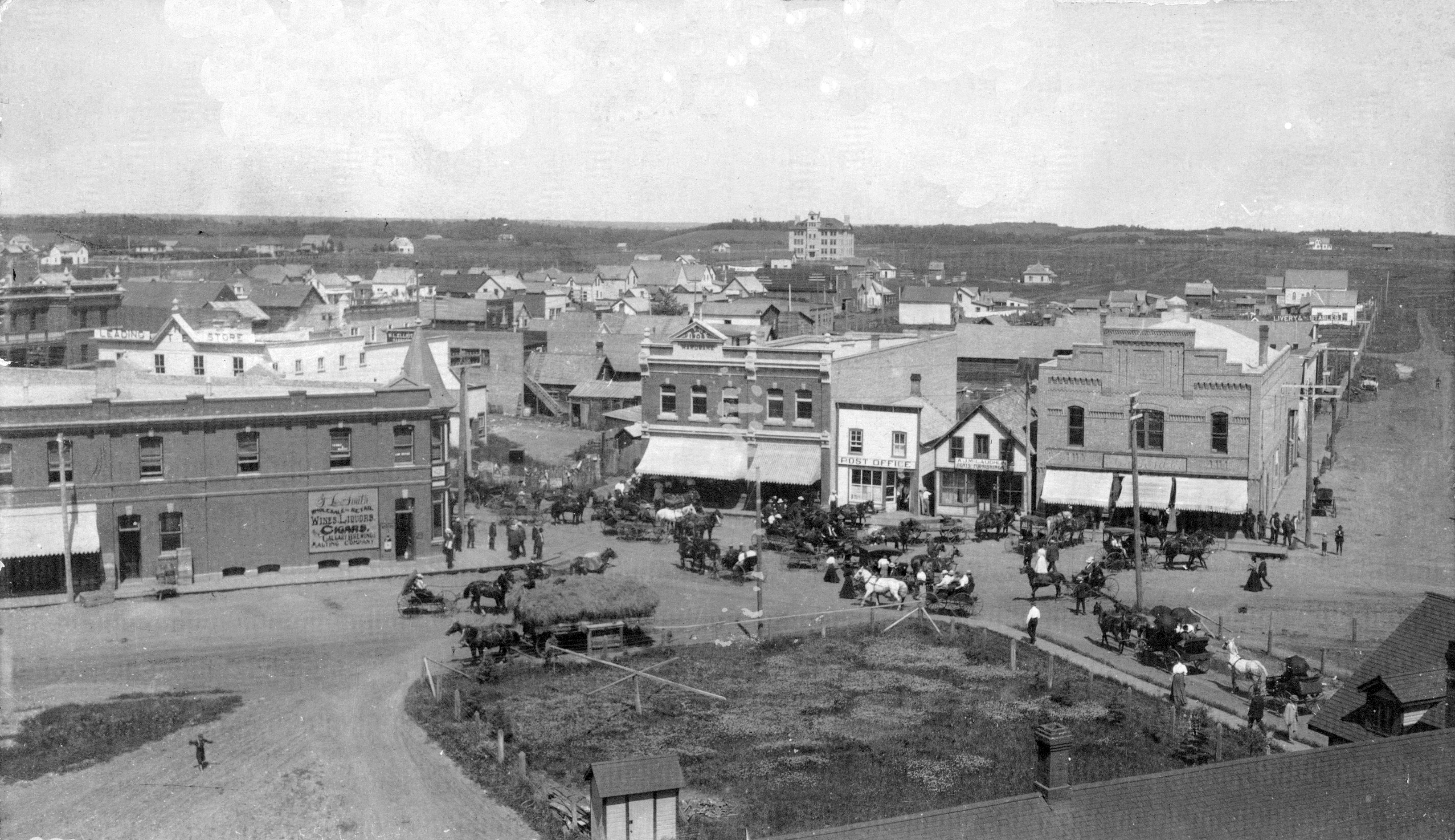 Original caption: “Lacombe 7.”